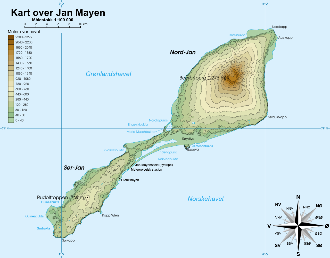 Topographic map of Jan Mayen, Norway